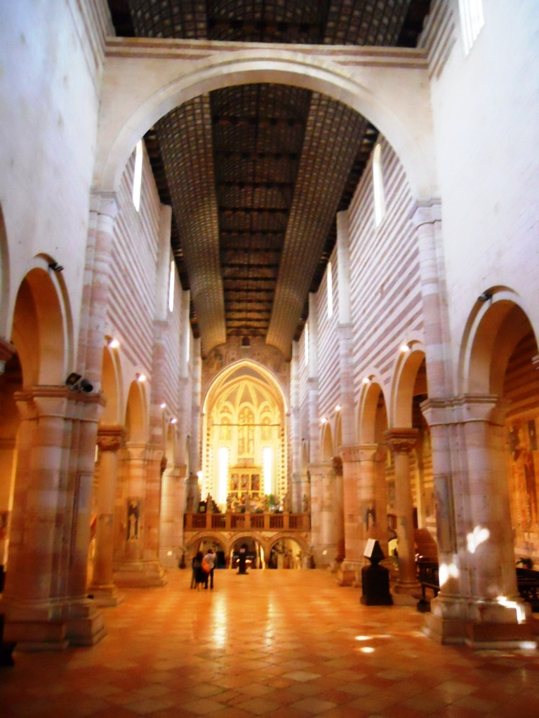 Verona San Zeno, interior